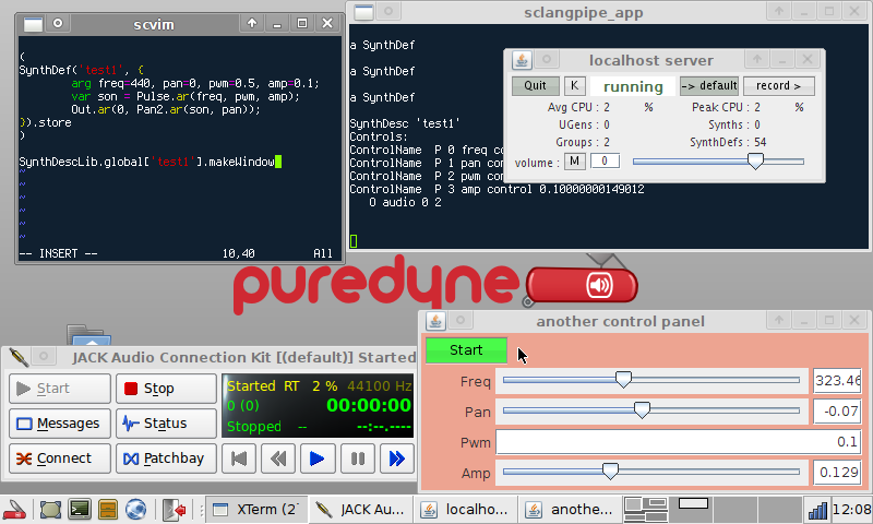 Puredyne 9.10 (carrot+coriander) running SuperCollider and Jack Control, on a small screen (Eee 701)